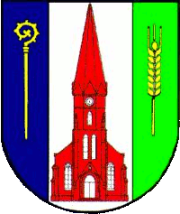 Coat of arms of the municipality Kirchgellersen in Niedersachsen, Germany.